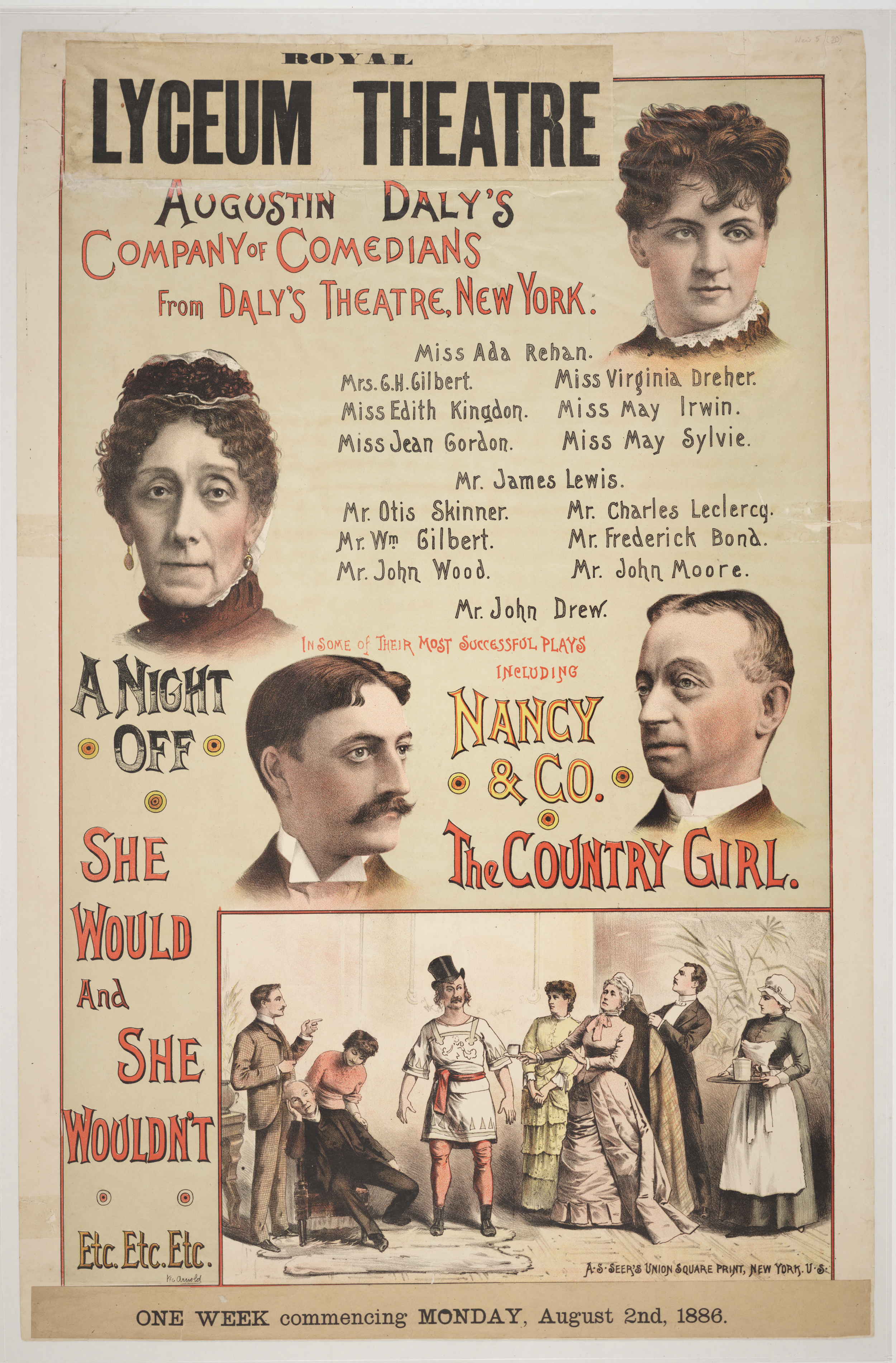 Augustin Daly's Company of Comedians from Daly's Theatre, New York ... in some of their most succesful plays including 'Nancy & Co.', 'The Country Girl', 'A Night Off', 'She Would And She Wouldn't', etc. One week commencing Monday, August 2nd, 1886. Printed by A. S. Seer's, Union Square Print, New York, U.S.. Drawing by Vic Arnold.